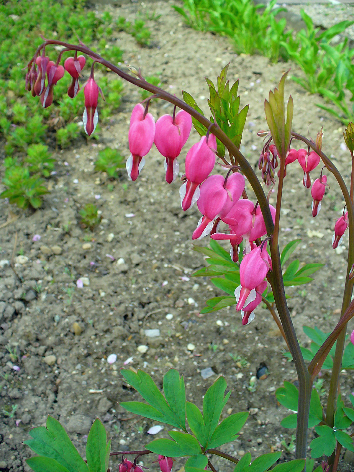 Lamprocapnos spectabilis, Papaveraceae, Venus's Car, Bleeding Heart, Dutchman's Trousers, Lyre Flower, inflorescence; Botanical Garden KIT, Karlsruhe, Germany. The plant is used in homeopathy as remedy: Dicentra spectabilis (Dice-s.)